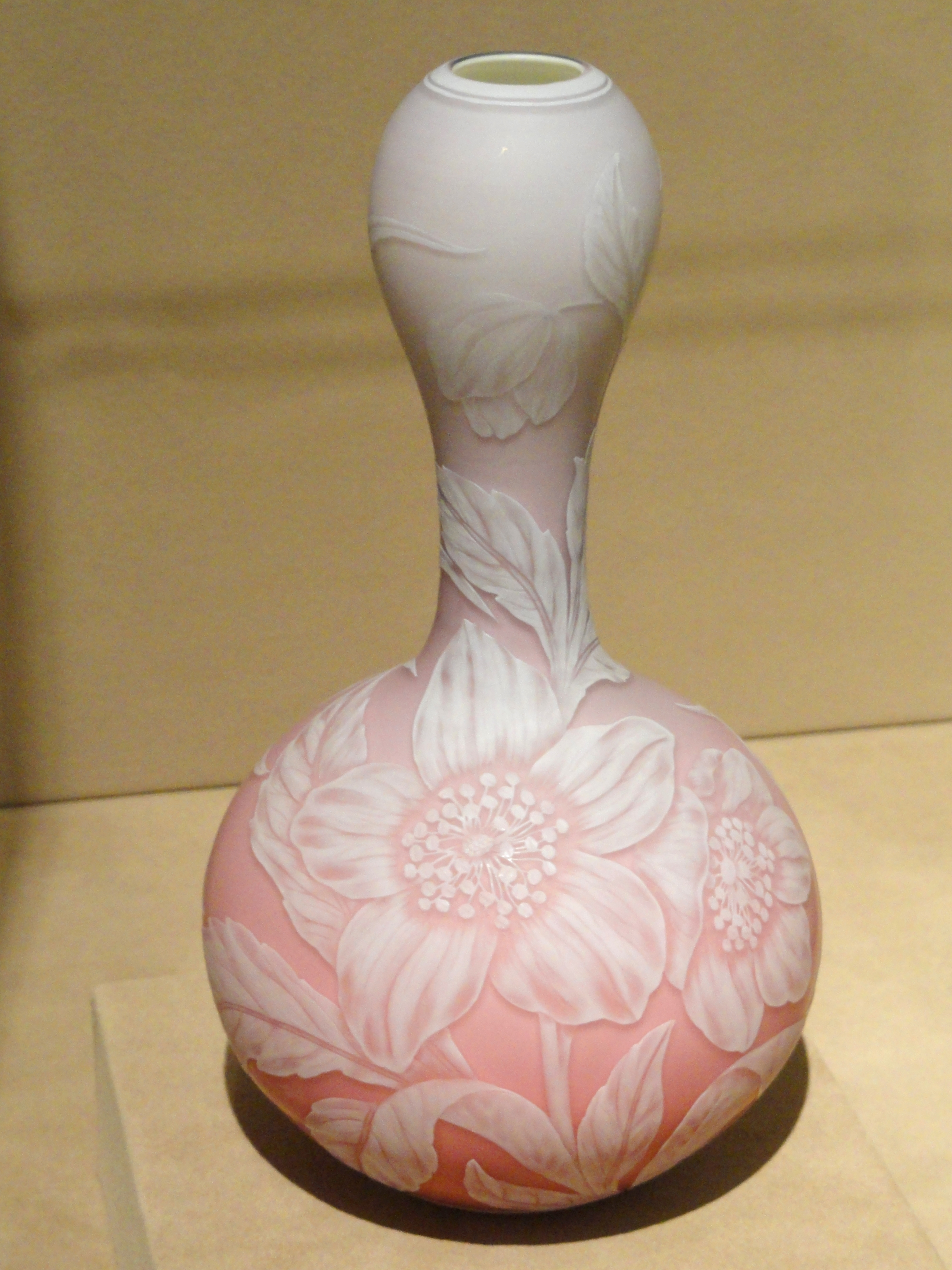 Stevens & Williams Ltd. vase, circa 1890. Exhibit in the Indianapolis Museum of Art, Indianapolis, Indiana, USA.